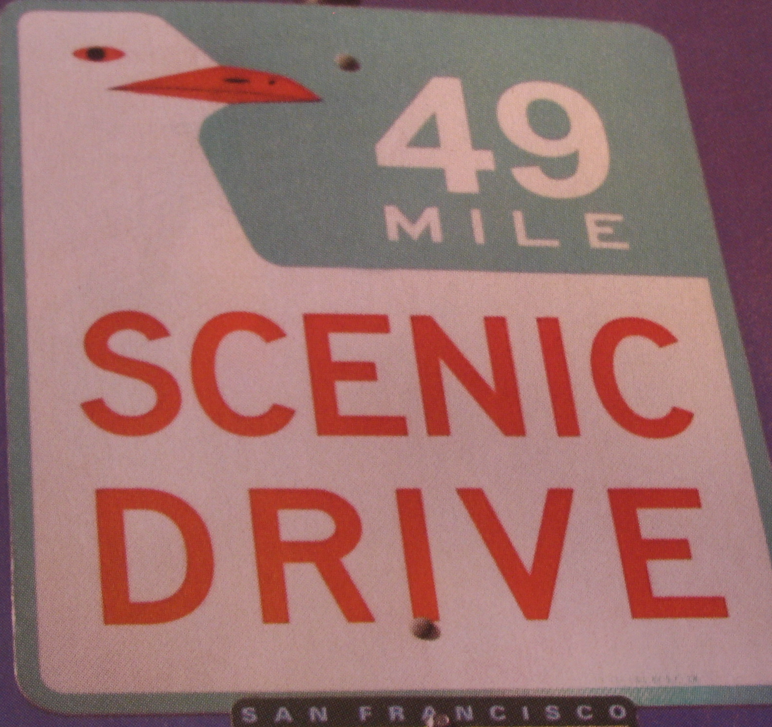 I, user:Schmiteye took this picture (April 2006).